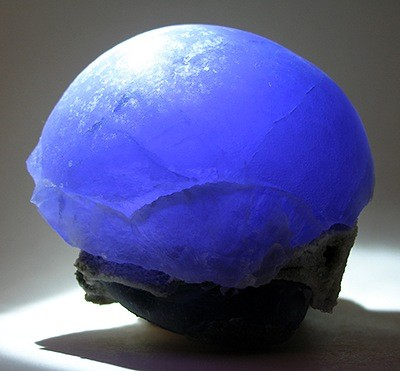 Fluorite Locality: Minggang Fluorite mine, Shihe District, Xinyang Prefecture, Henan Province, China (Locality at ) Size: 6.0 x 6.0 x 5.8 cm. One of the more dramatic specimens, I call the "mushroom" for its appearance: a complete-all-around purple cap perched on matrix. GORGEOUS translucent color when backlit, like grape juice! For whatever reasons, this piece transmits light more clearly than others and so has a richer intensity. The piece is complete on 3 sides, if contacted on the lower periphery.